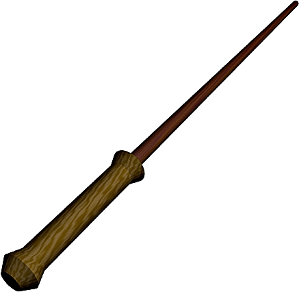 Magic wand, pointing up and to the right.